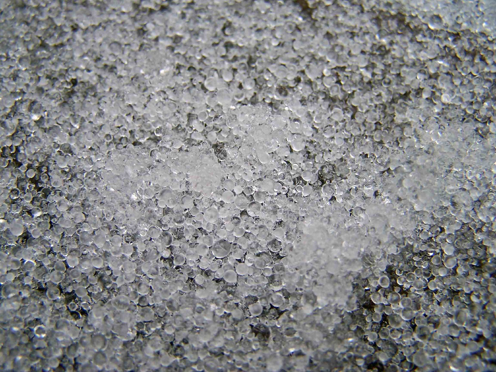 A layer of ice pellets (North American definition: sleet) on the ground.